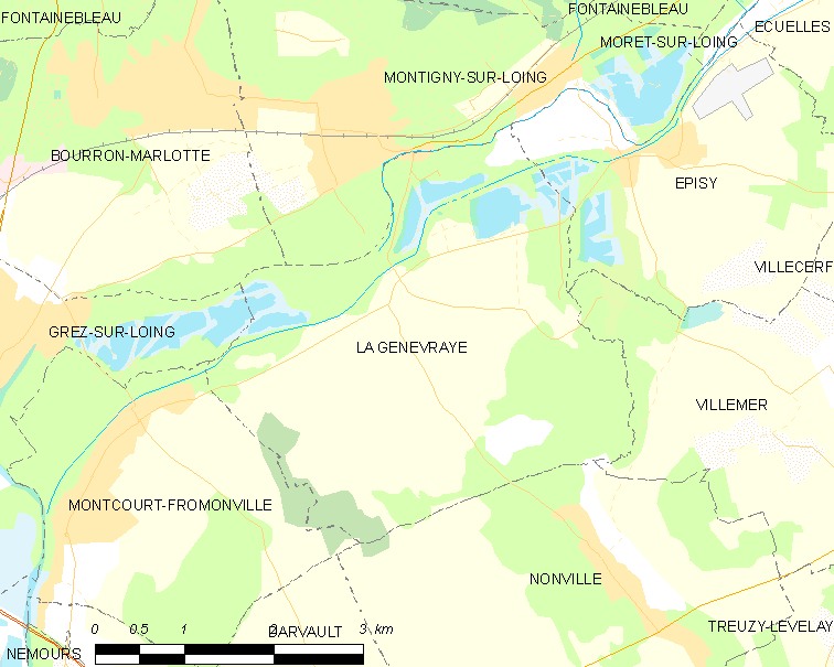 Map of French municipality La Genevraye